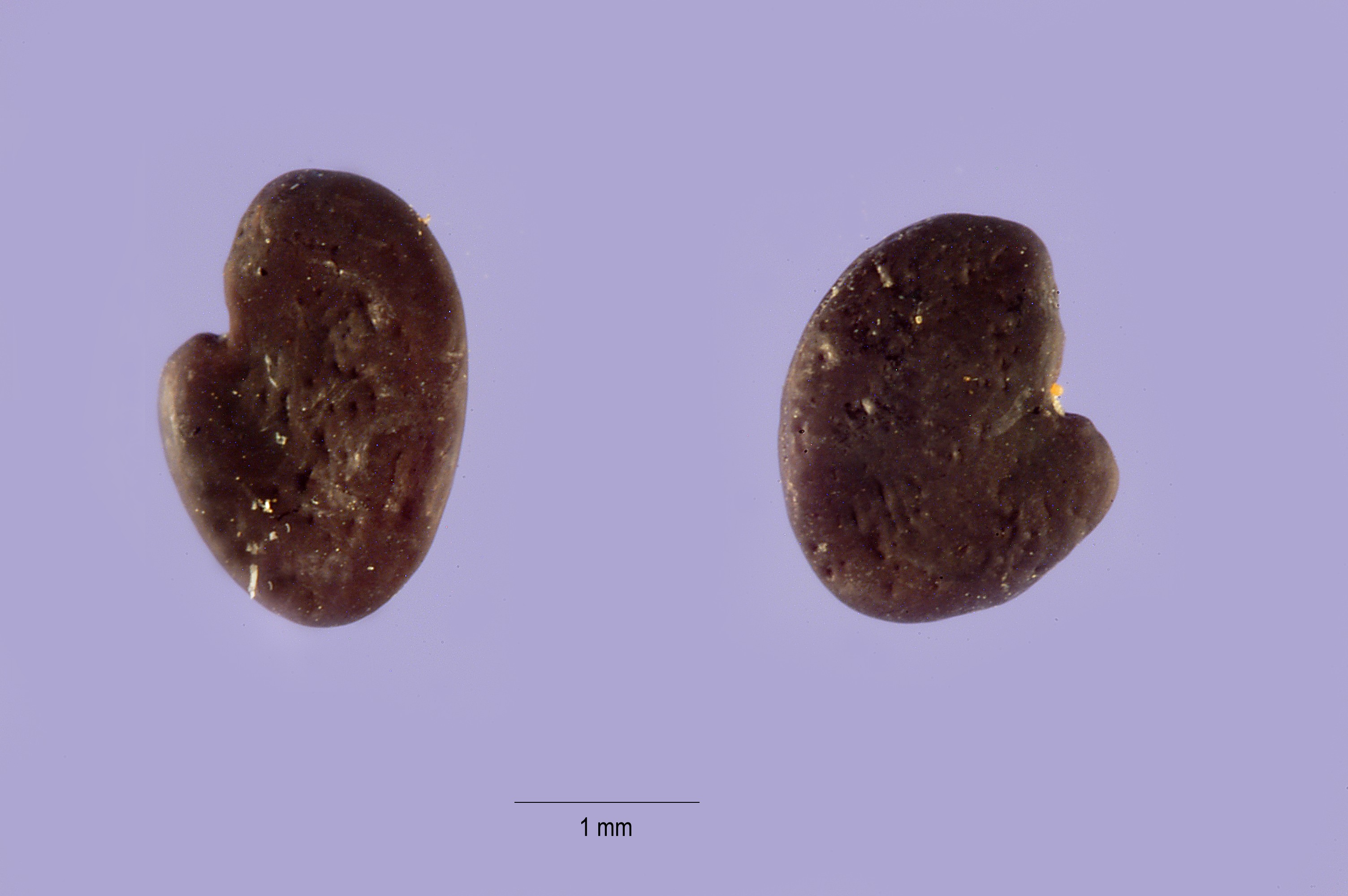 seeds of Astragalus eurekensis from Tracey Slotta. Provided by ARS Systematic Botany and Mycology Laboratory. United States, UT, Millard Co.